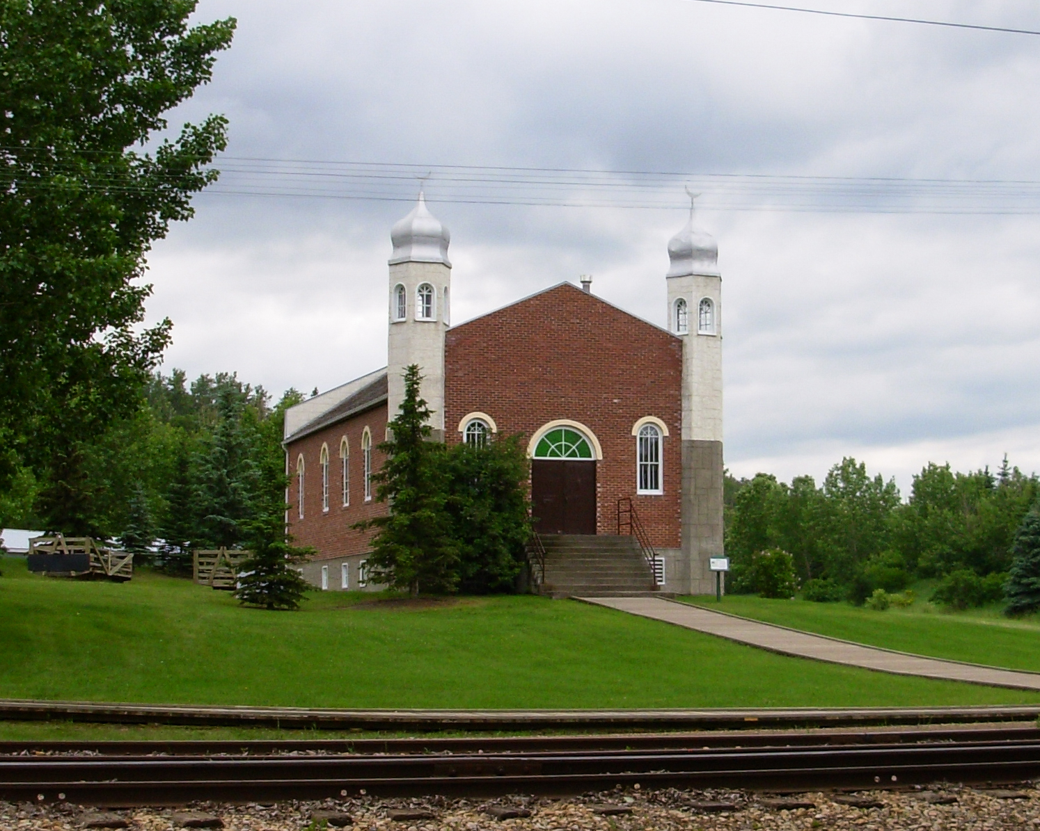 al-Raschid Mosque on 1920 Street, Fort Edmonton Park